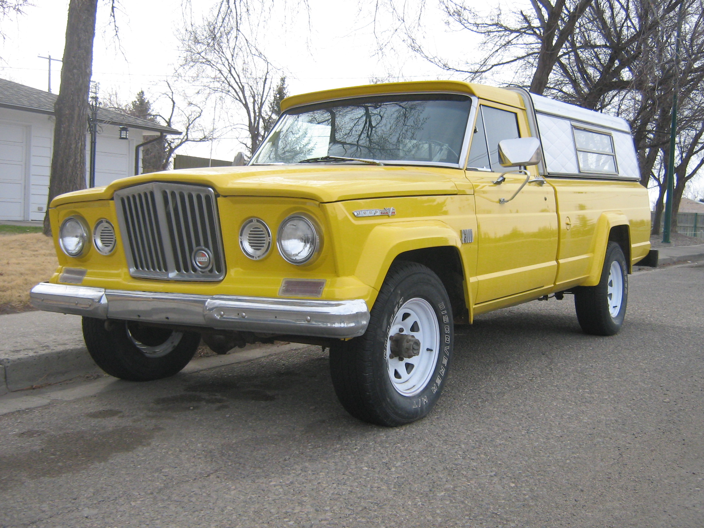 Jeep Gladiator J300 - long wheelbase.